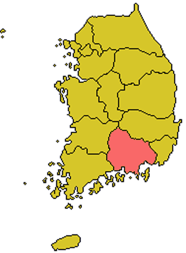 Diocese of Masan